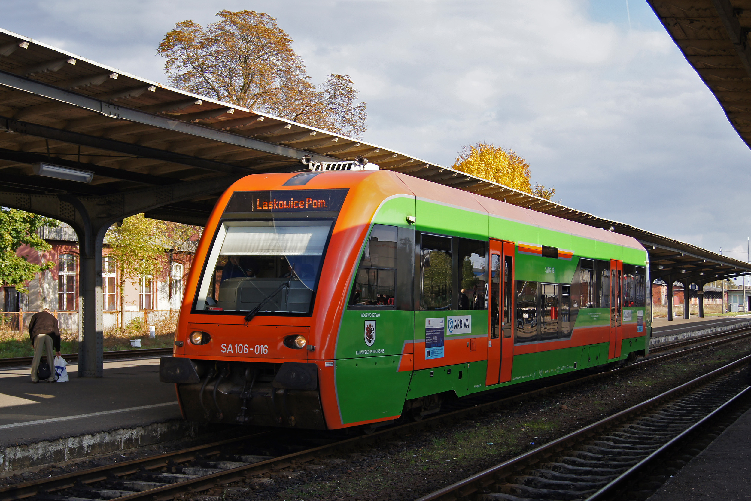 PESA SA106-016 at Grudziadz Train Station.